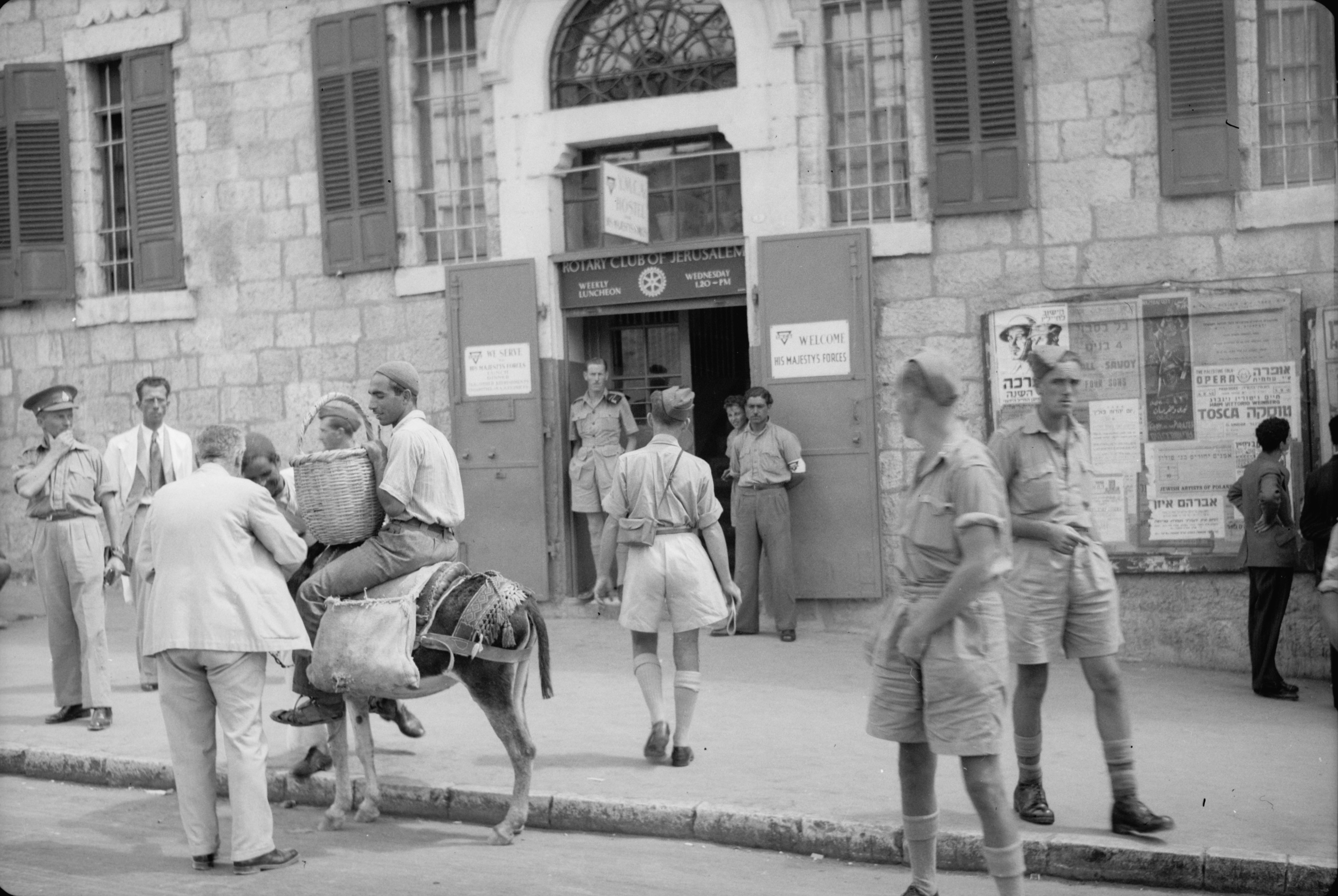 Title: 'Y' Hostel bld'g, entrance Abstract/medium: G. Eric and Edith Matson Photograph Collection Physical description: 1 negative